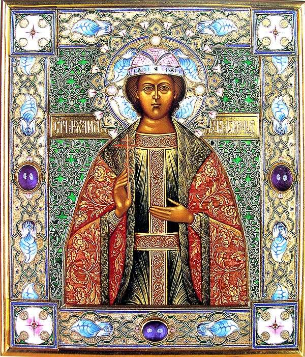 Saint Michael, Prince of Murom